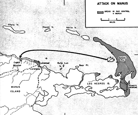 Attack on Manus Island, 11 March 1944